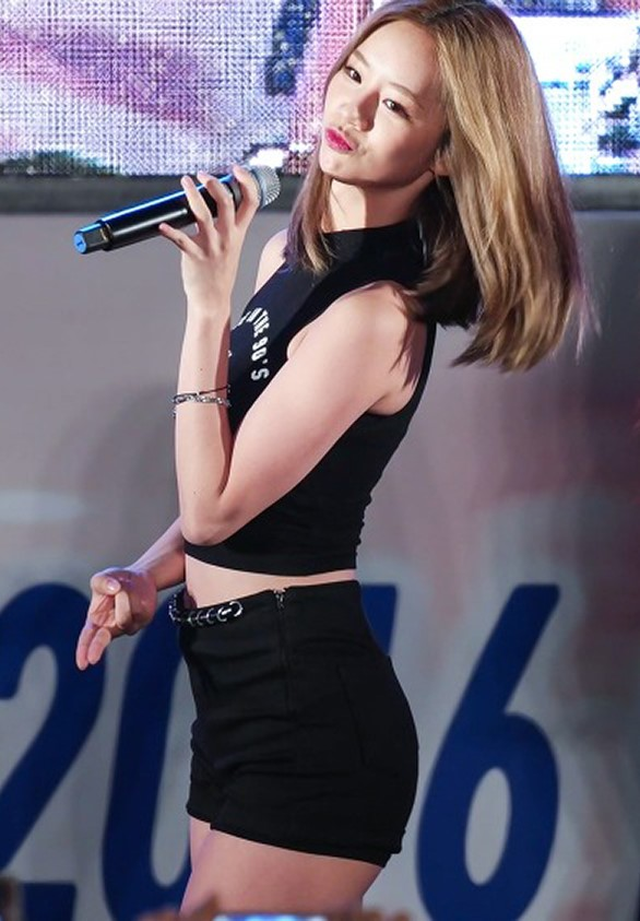 Lee Hye-ri at Andong National University Festival on September 24, 2016.